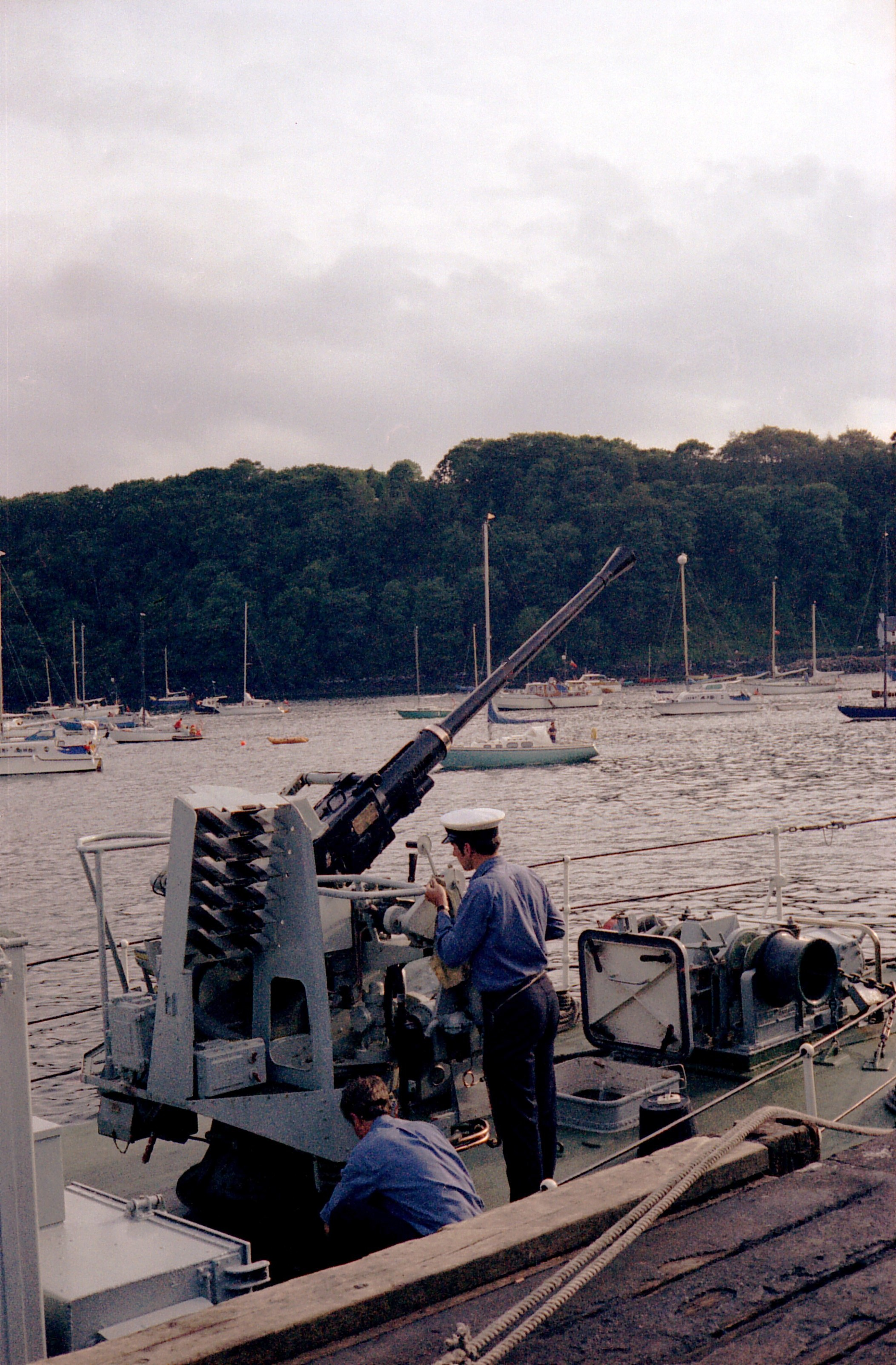 Bofors 40 mm gun on HMS Isis (M2010), a Ley-class minehunter in Tobermory Harbour, Mull, Scotland